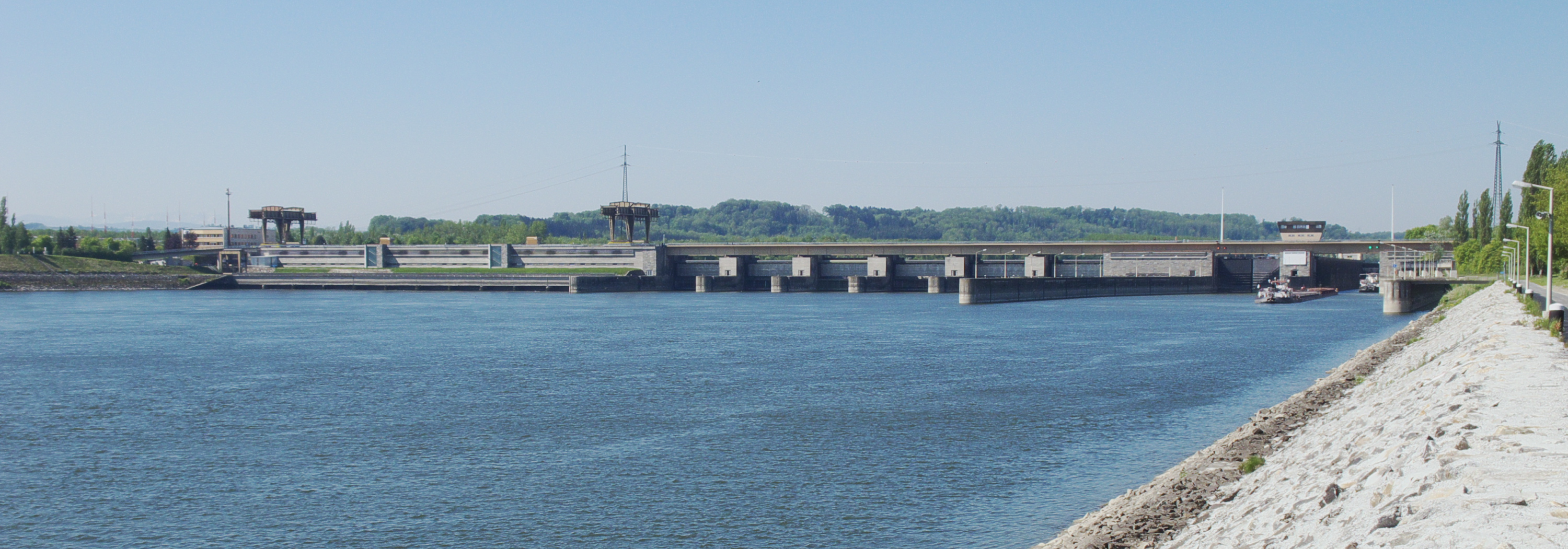 Wallsee-Mitterkirchen Danube hydro power station, eastern view.